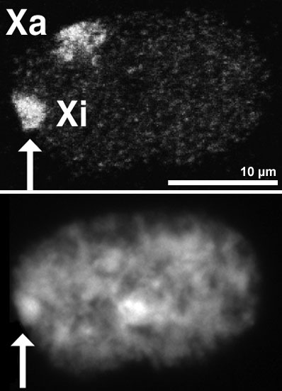 Nucleus of a female amniotic fluid cell. Top: Both X-chromosome territories are detected by FISH. Shown is a single optical section made with a confocal microscope. Bottom: Same nucleus stained with Dapi and recorded with a CCD camera. The Barr body is indicated by the arrow, it identifies the inactive X (Xi). Preparation of specimen as described in: R Eils, S Dietzel, E Bertin, E Schrock, MR Speicher, T Ried, M Robert-Nicoud, C Cremer and T Cremer (1996): Three-dimensional reconstruction of painted human interphase chromosomes: active and inactive X chromosome territories have similar volumes but differ in shape and surface structure. Journal of Cell Biology, Vol 135, 1427-1440. PMID:8978813. Website.